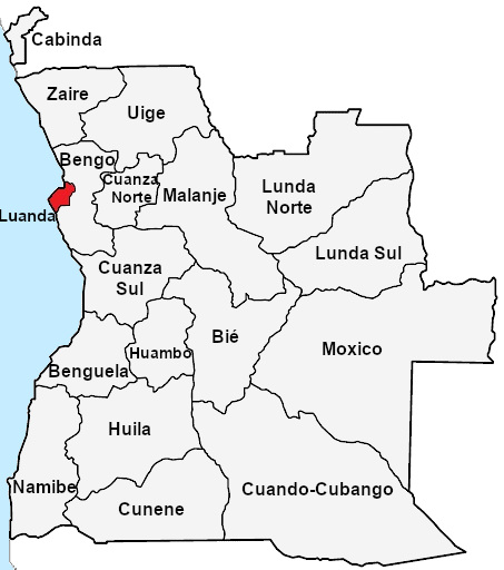 Map of Angola regions that shows, highlighted as red, the regions afected by COVID-19 pandemic